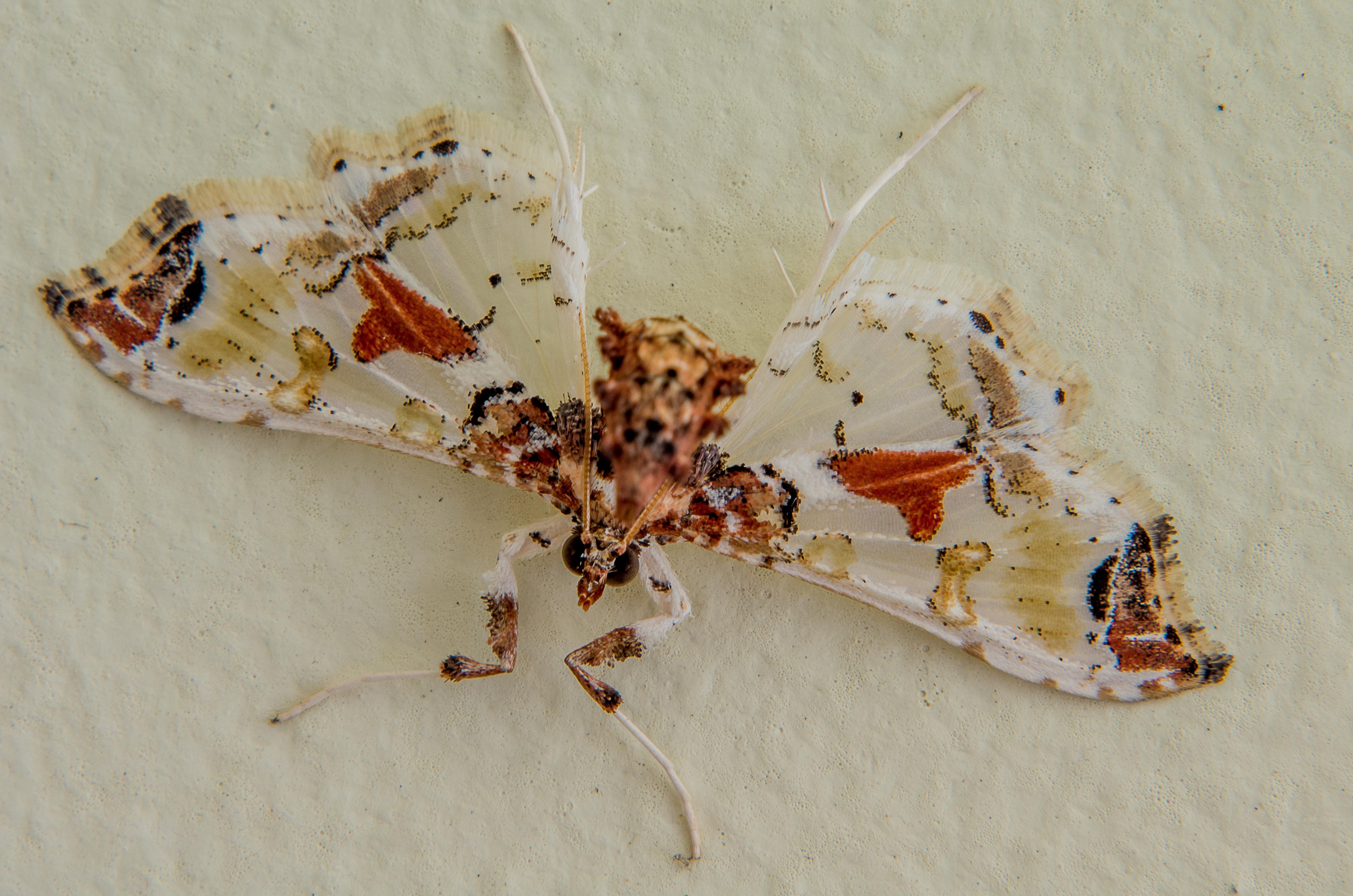 Neoleucinodes elegantalis is a moth of the family Crambidae.